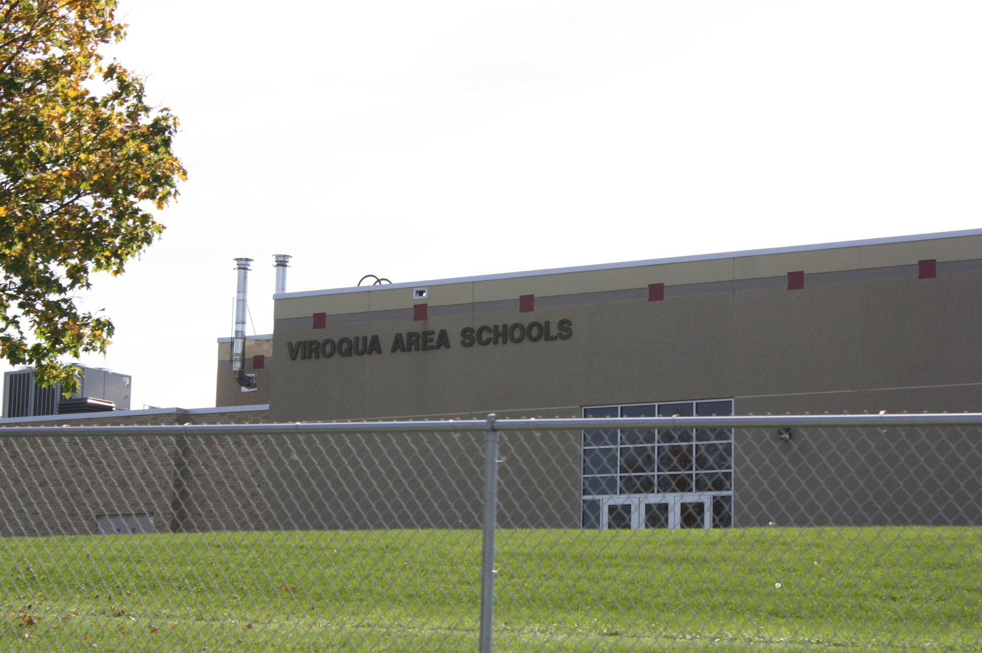 The school in Viroqua, Wisconsin along Wisconsin Highway 56.